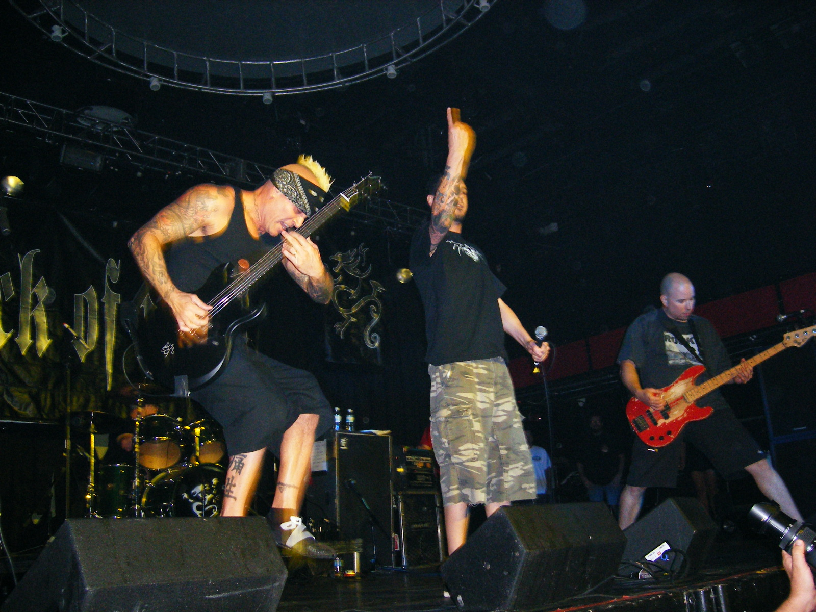 Sick of It All on their 20th Anniversary Tour @ Revolution In Fort Lauderdale, FL